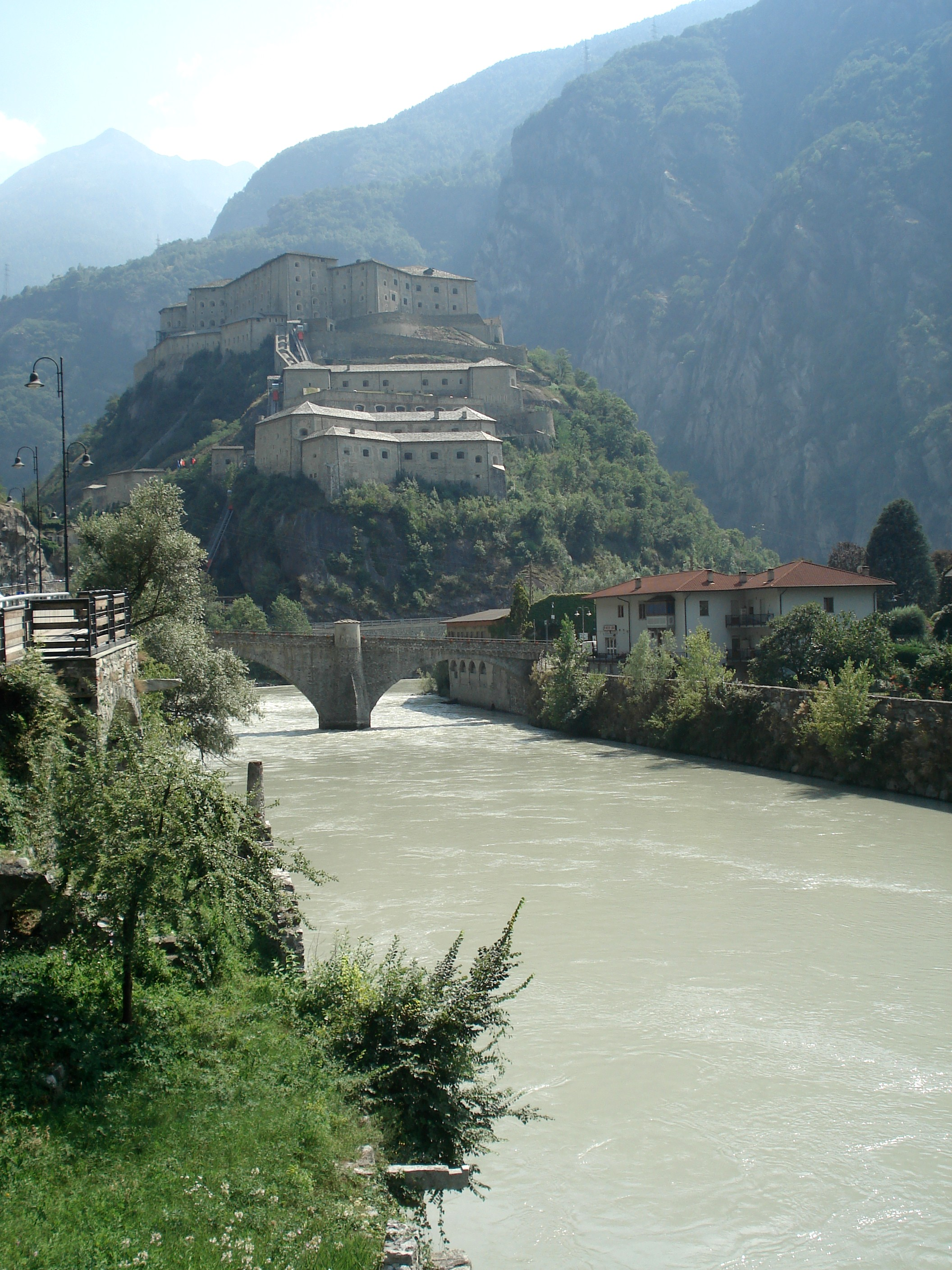 Fort Bard in Aosta Valley. View from the north with Dora river This is a photo of a monument which is part of cultural heritage of Italy.